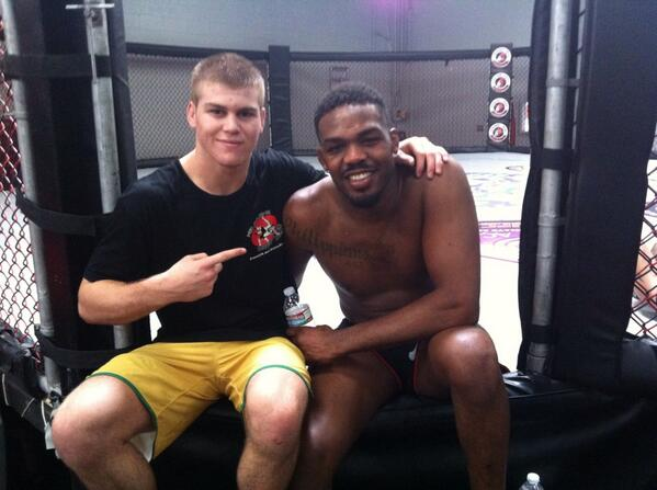 Jake Mattews (Left) Jon Jones (Right)